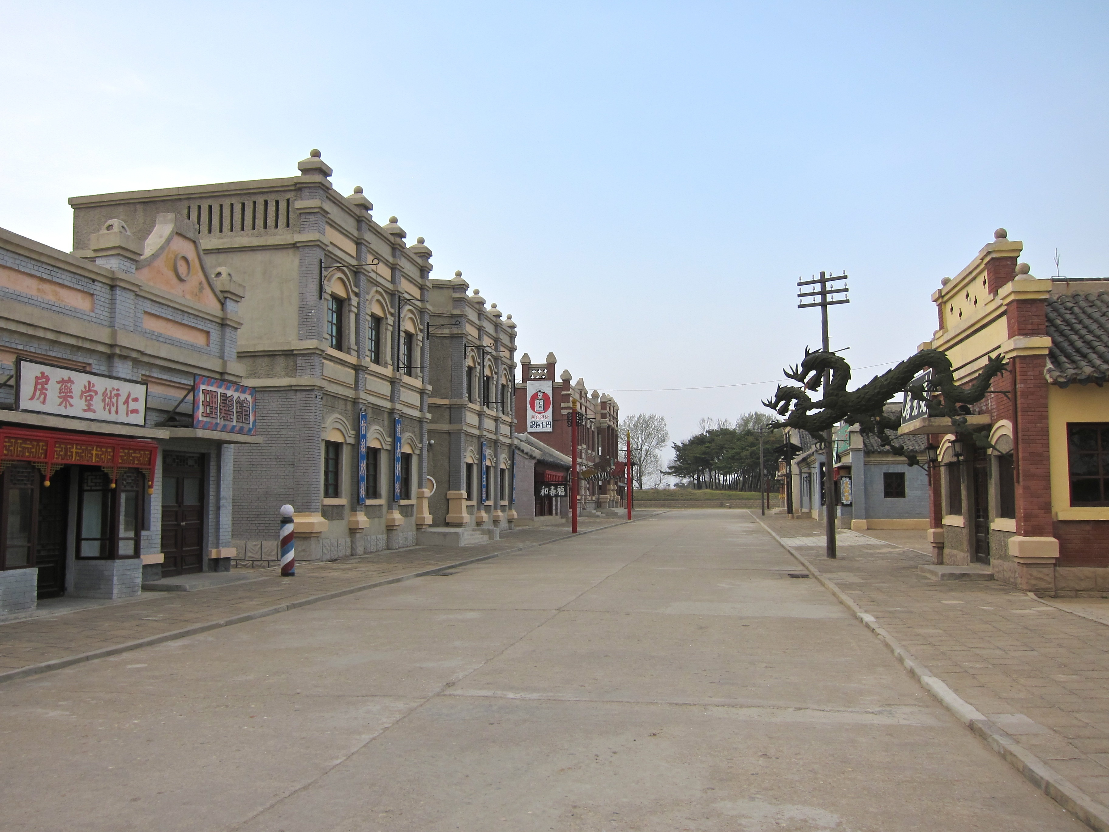 North Korea Film Studios, Movie Set of Harbin, China